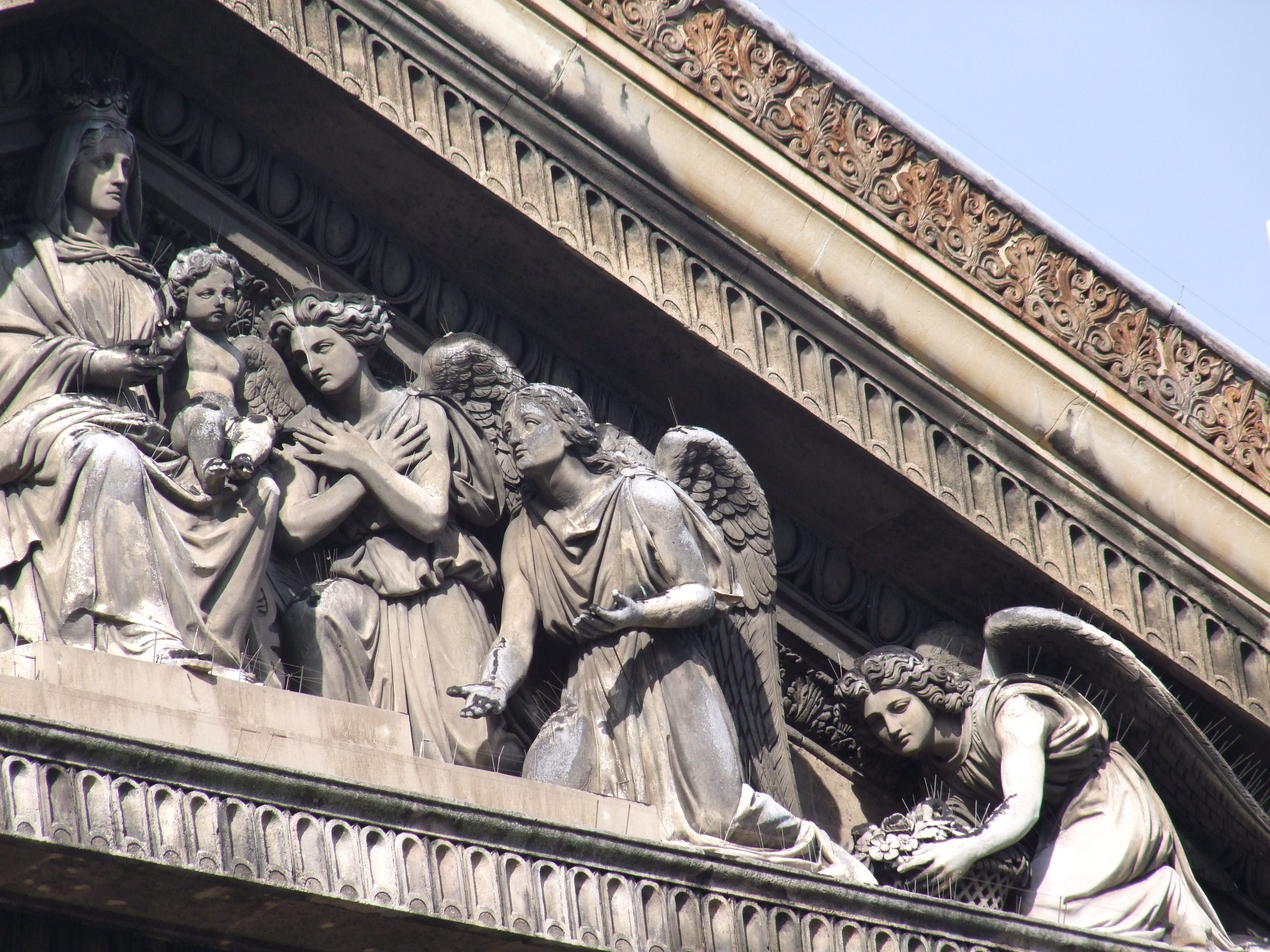 Church Notre-Dame-de-Lorette, Paris (pediment detail)